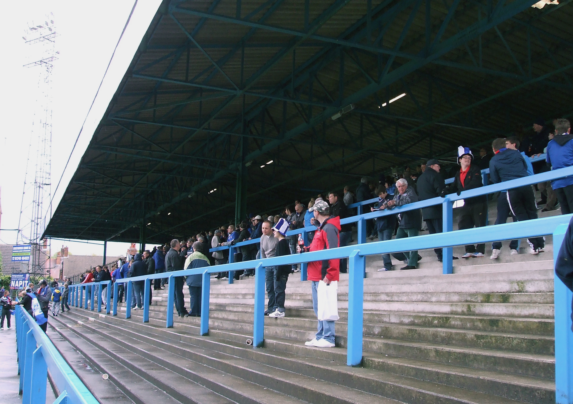 The home terracing at Saltergate, filling early for the farewell game at the original home of Chesterfield F.C., taken approximately 90 minutes before kick off. This was the final occasion on which fans were able to stand to watch one of the club's home fixtures.